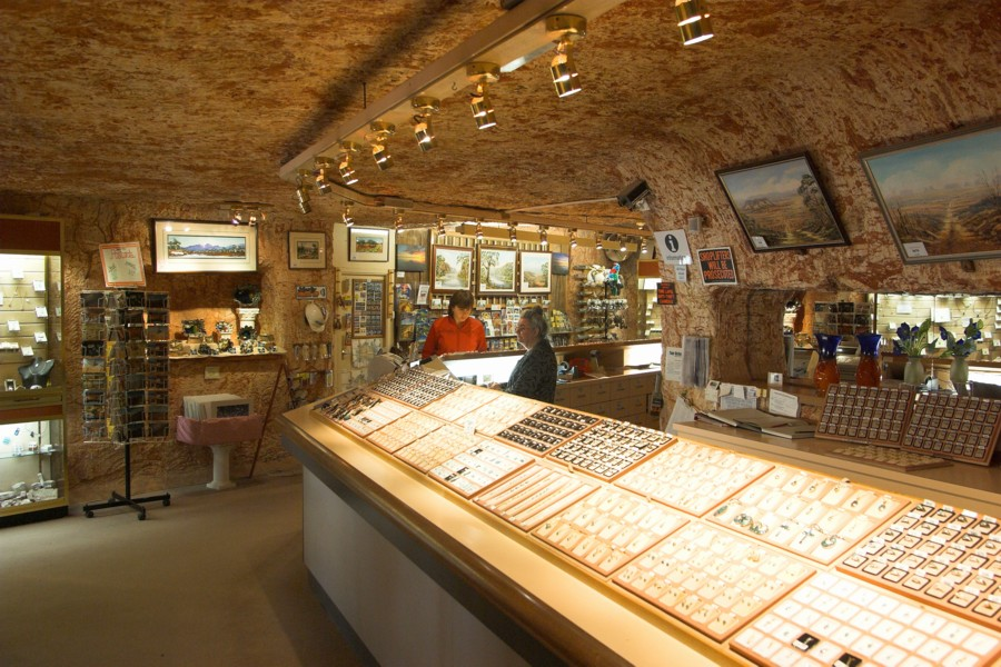 Inside jewelry shop (Coober Pedy)